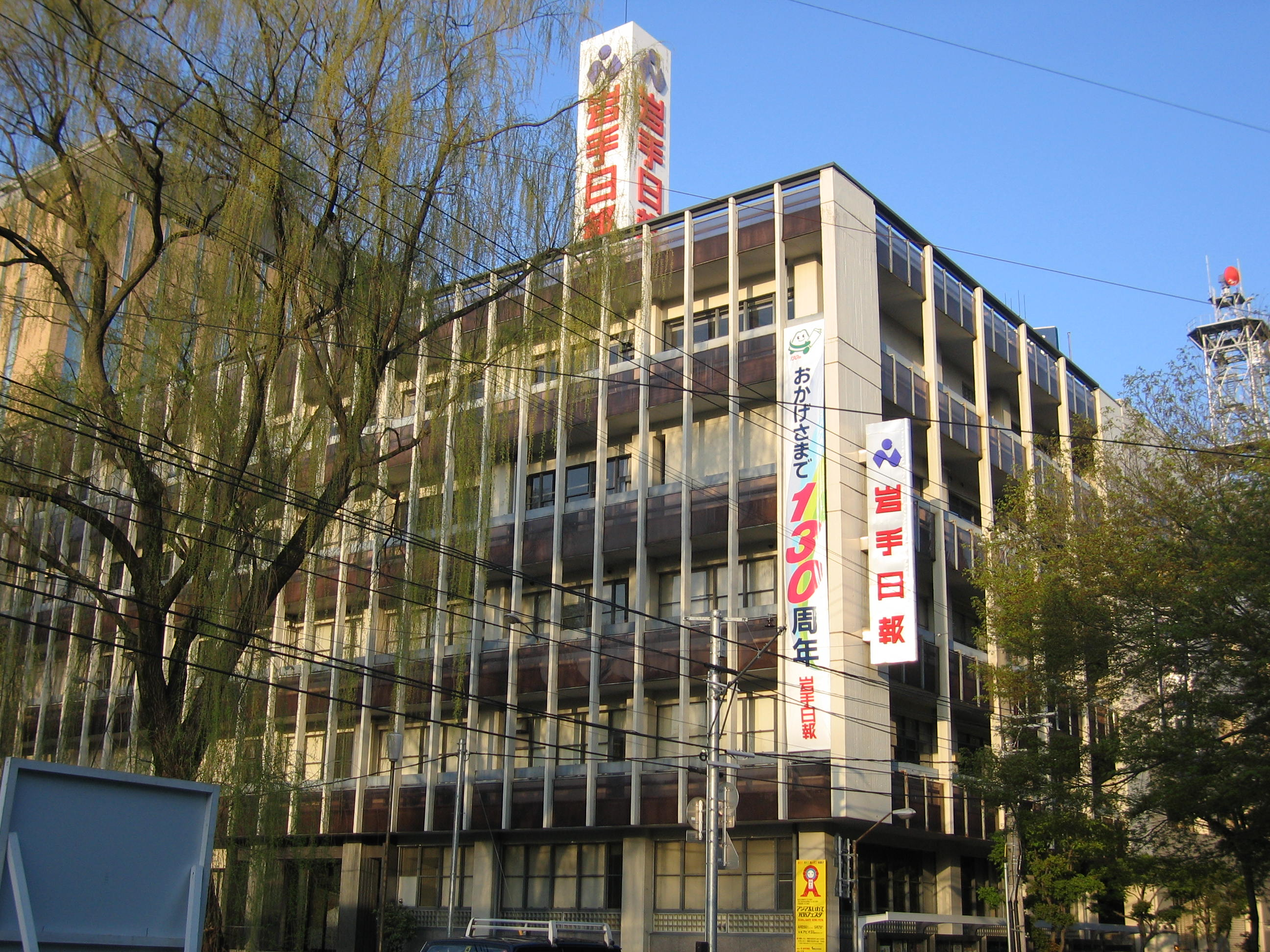 岩手日報社本社 Headquarters of Iwate Nippo Newspaper